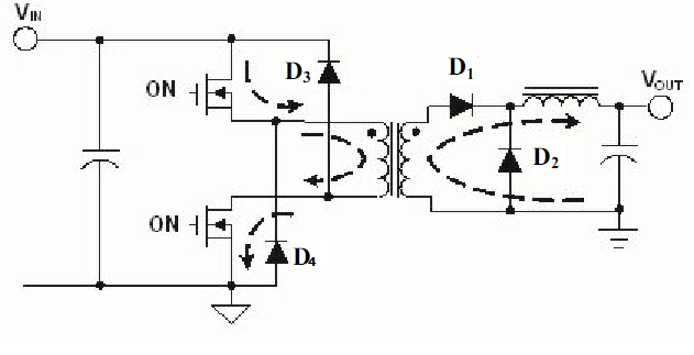 Графік4 базового прямоходового одноконтактного перетворювача